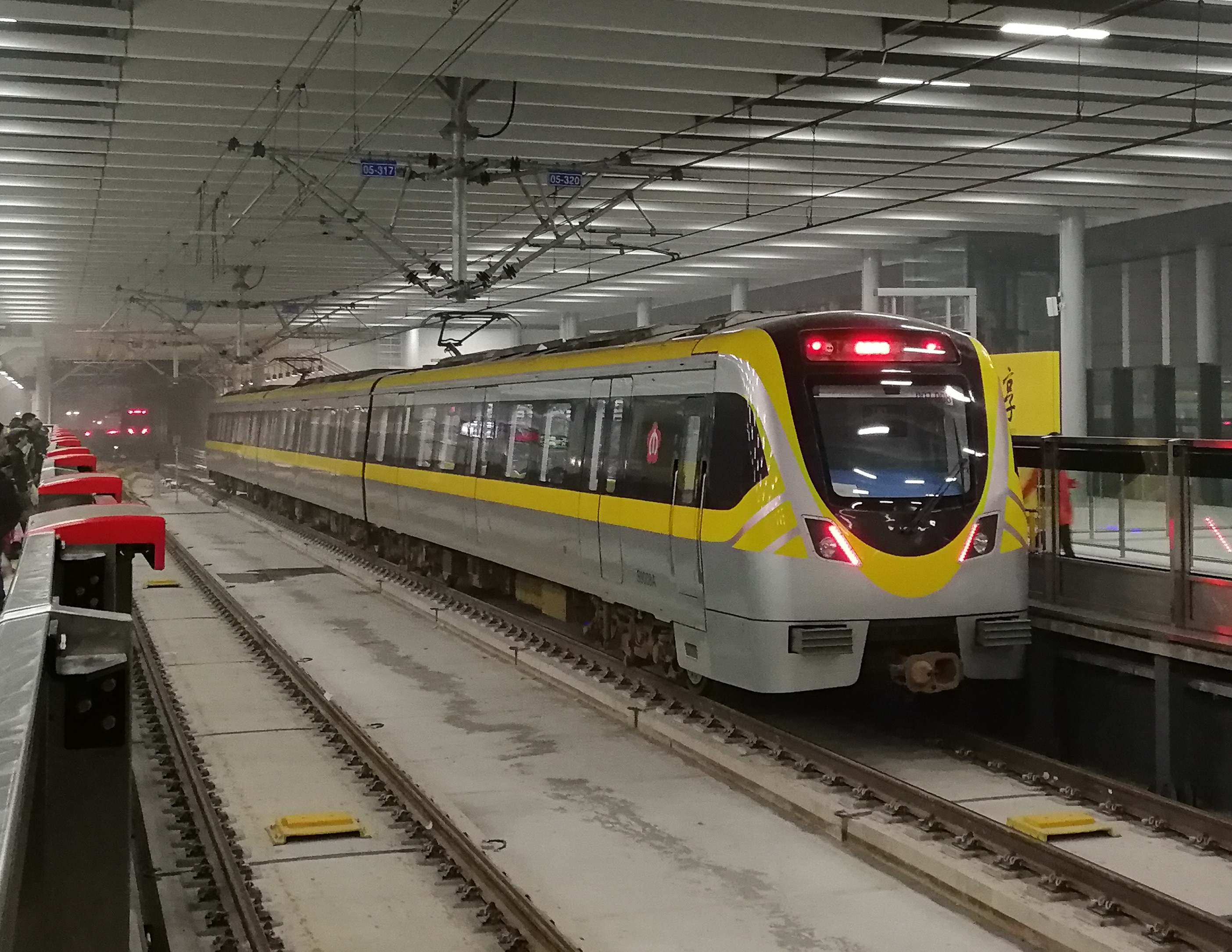 Nanjing Metro Line S9 Train at Gaochun Station